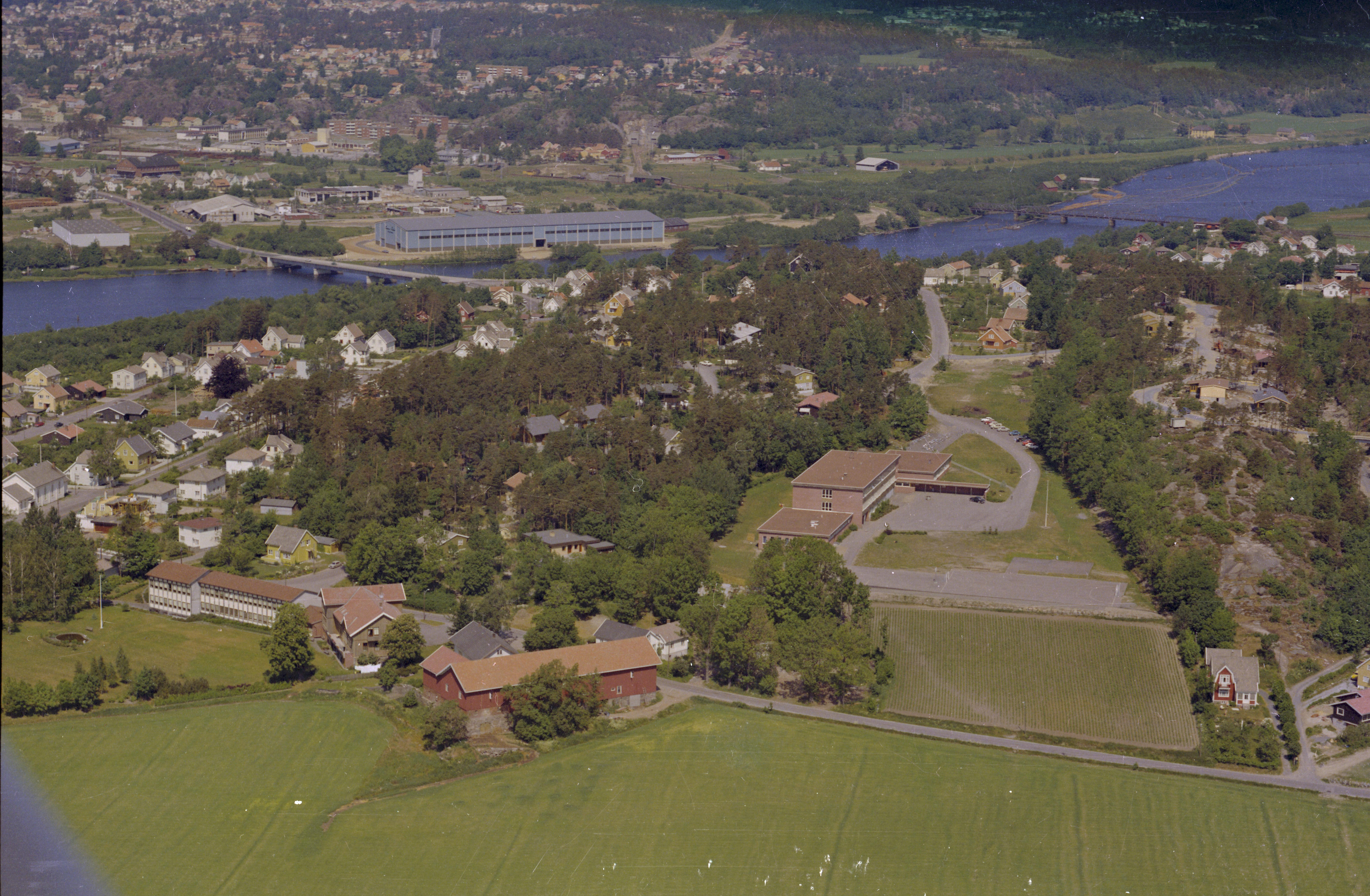 WF.HL.203414